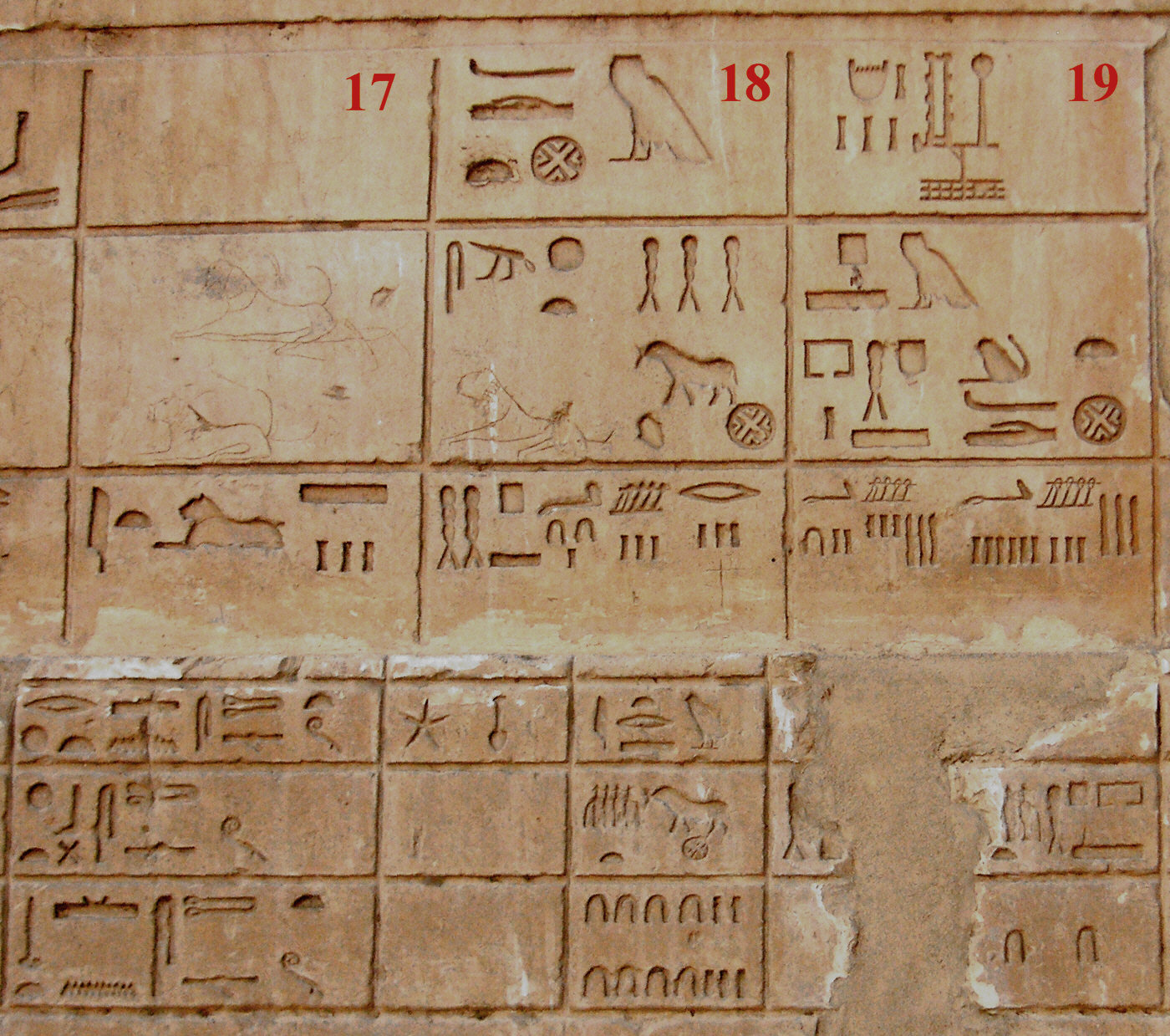 Nomes of Lower Egypt, columns 17-19 of list of Sesostris I.